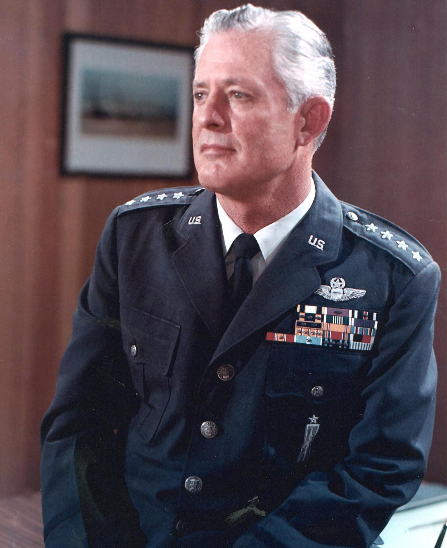 Gen Jack J. Catton, USAF